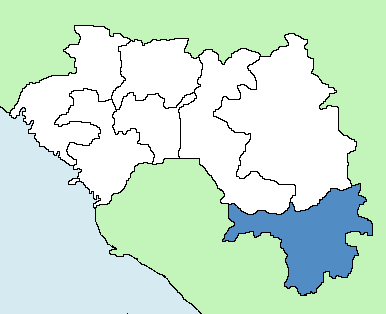 Map showing location of Nzérékoré Region in Guinea